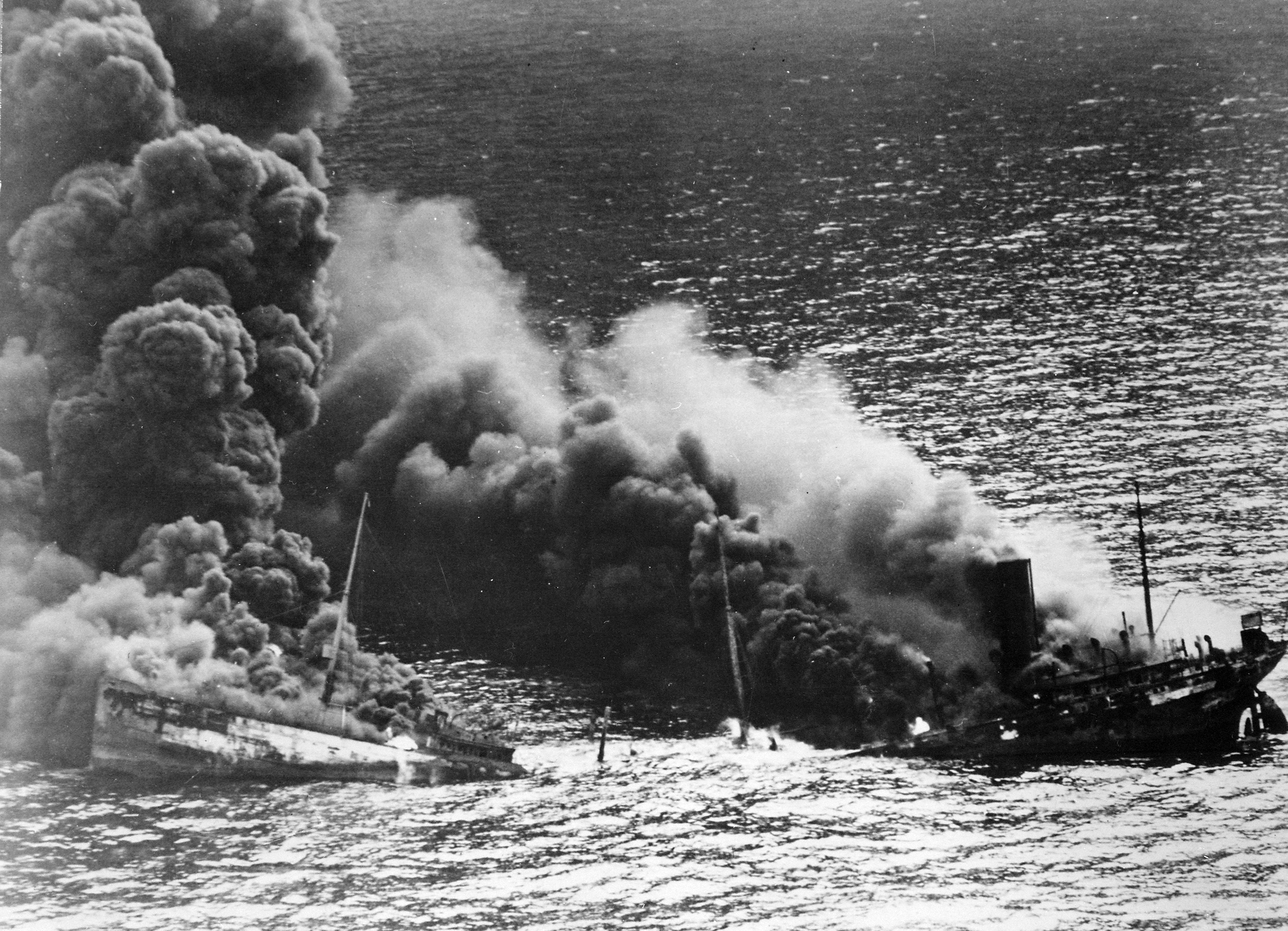 Allied tanker Dixie Arrow torpedoed in Atlantic Ocean by German submarine. Ship crumbling amidship under heat of fire, settles toward bottom of ocean, 1942.